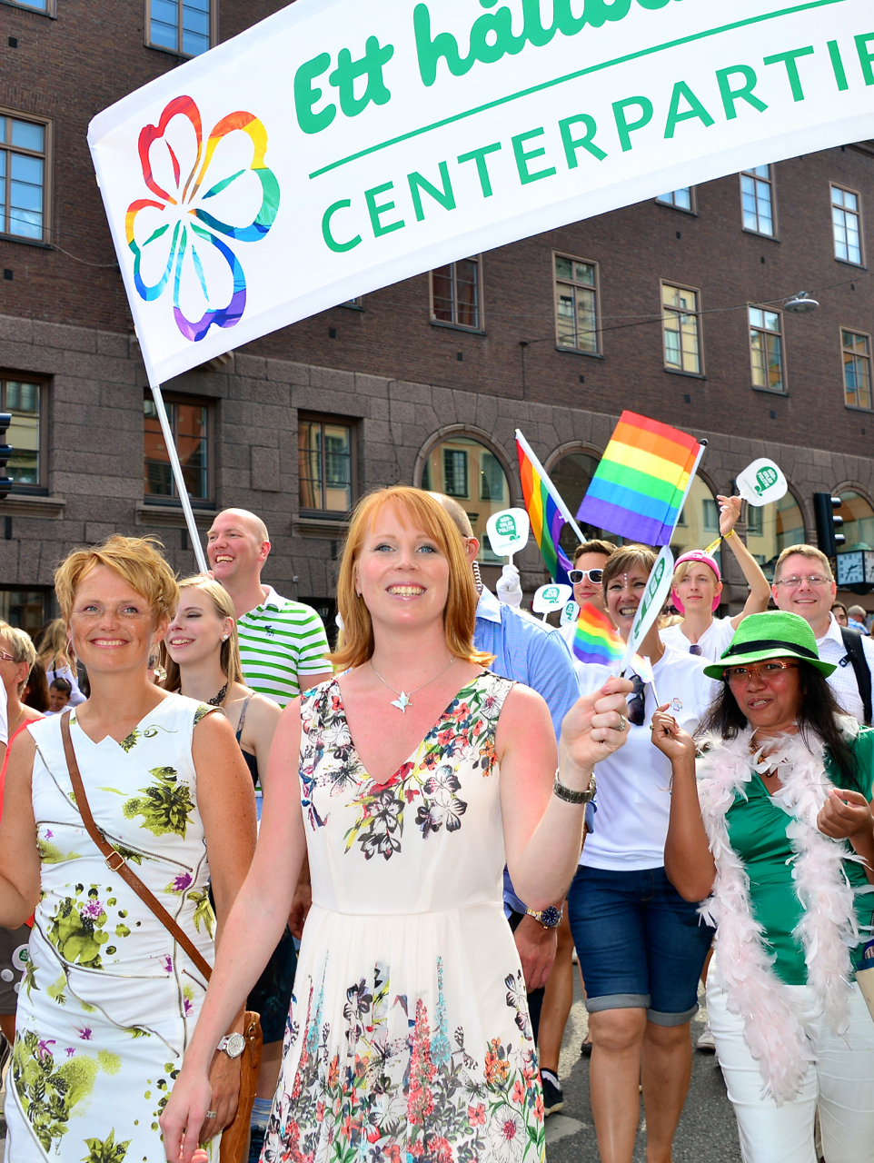 Centre Party in the final Pride Parade during Stockholm Pride in 2014. Anna-Karin Hatt, Annie Lööf (party leader).